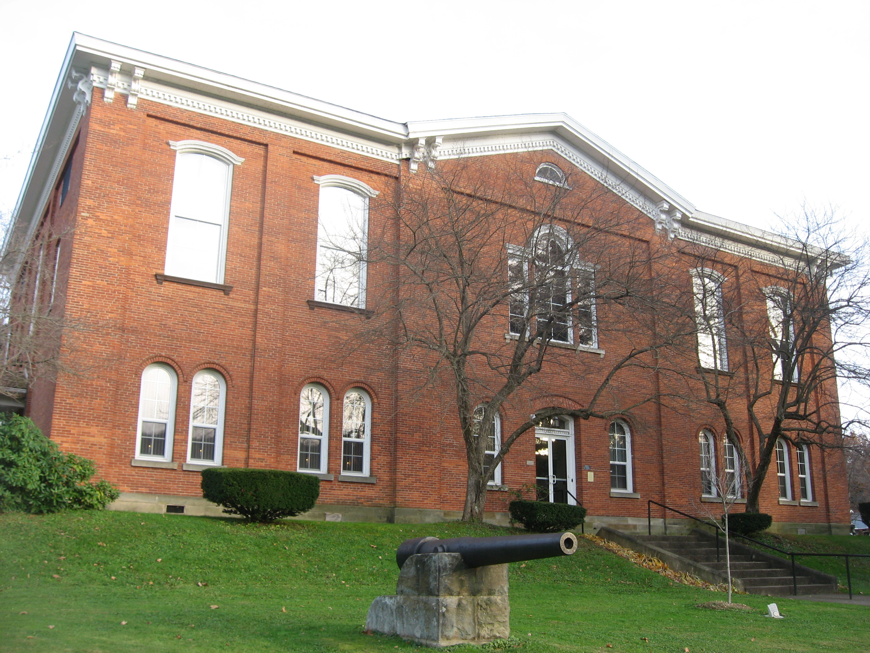 Front and northern side of the Forest County Courthouse, located at 526 Elm Street (U.S. Route 62) in Tionesta, Pennsylvania, United States. It was built in 1870.